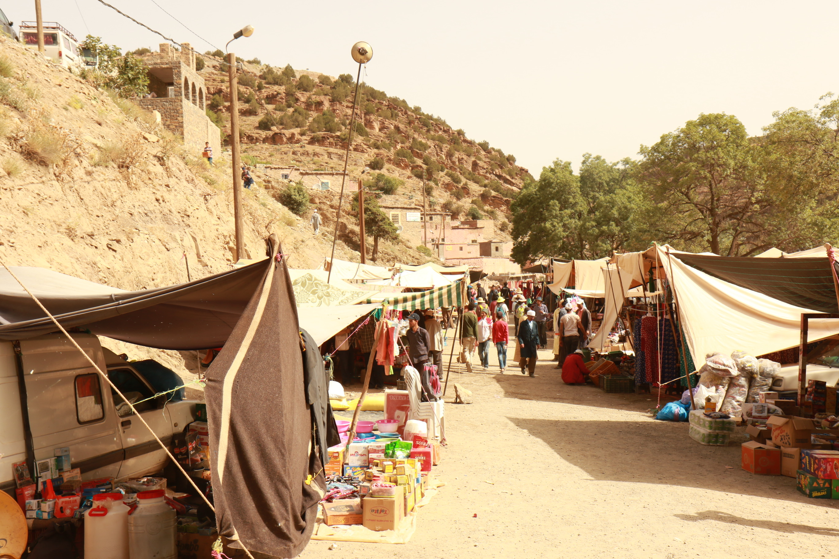 weekly market, souk, Monday market, Zawiya Ahansal, Berber Market